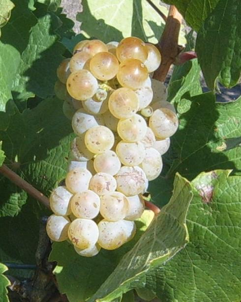 I picked this bunch of Riesling grapes at a vineyard on Spring Range between Murrumbateman and Canberra, south-east Australia, in mid-February 2007.